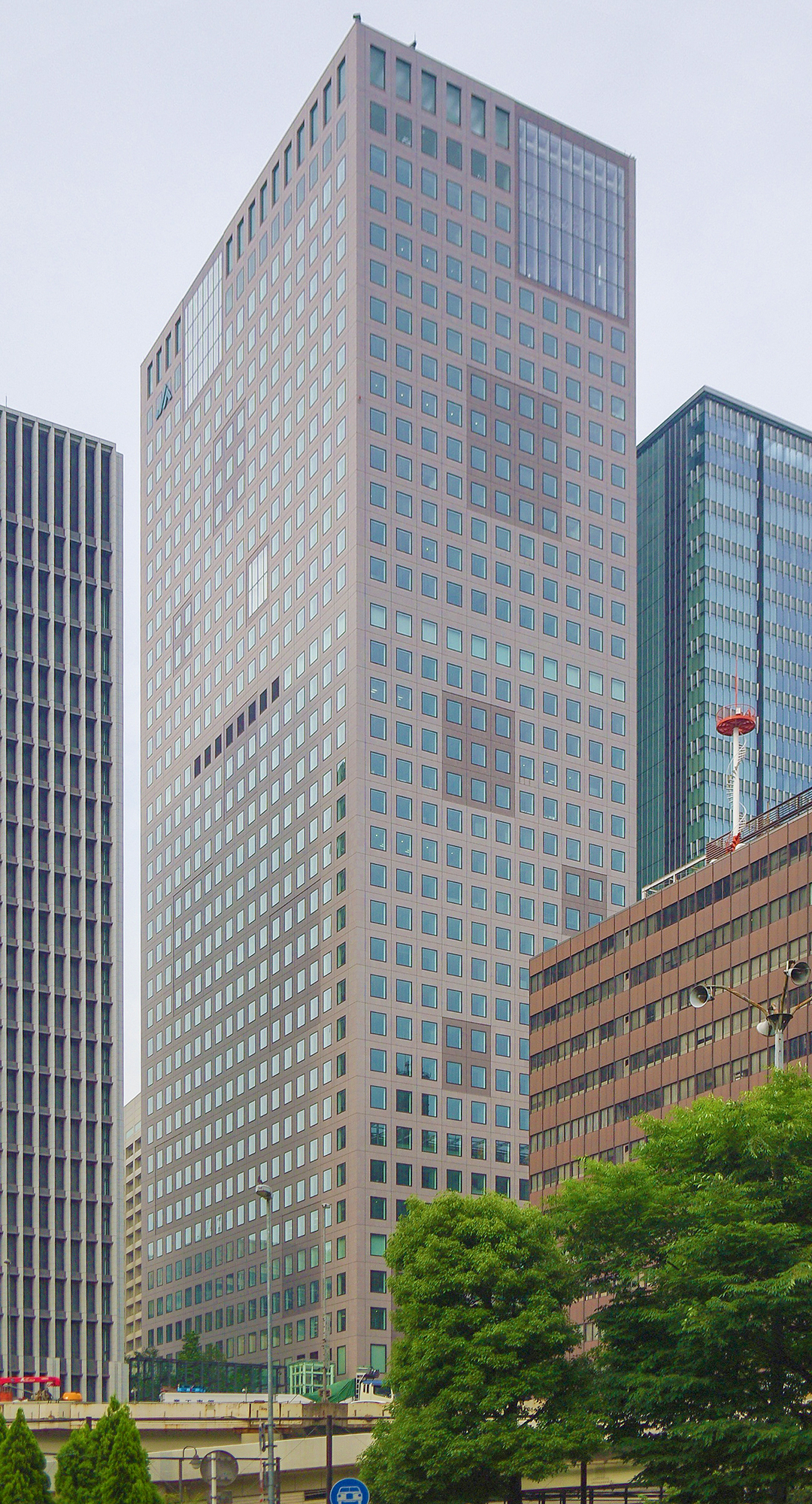 Photograph of JA Building, the headquarters of JA Zenchu and JA Zen-noh, in Otemachi, Chiyoda, Tokyo, Japan.